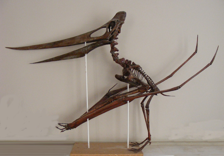 This is a "reinflated" sculpture in wood, plastic and wire of the most complete, but crushed, Pteranodon specimen ever discovered, known as the Triebold specimen (NMC41-358).